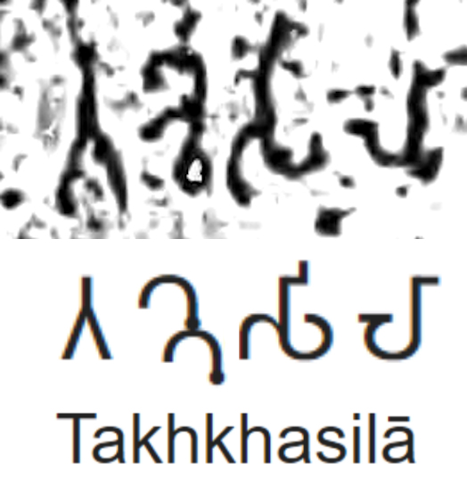 The word "Takhkhasila" in the Heliodorus Pillar inscription